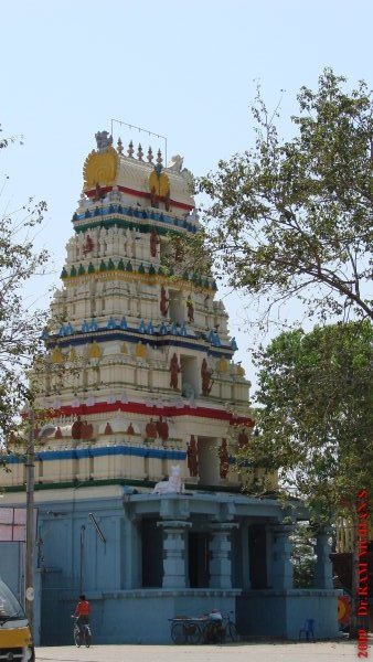 gopuram